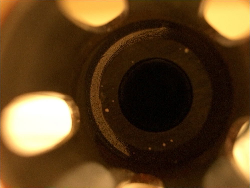 Inside_of_a_muzzle_of_an_M16A2_rifle